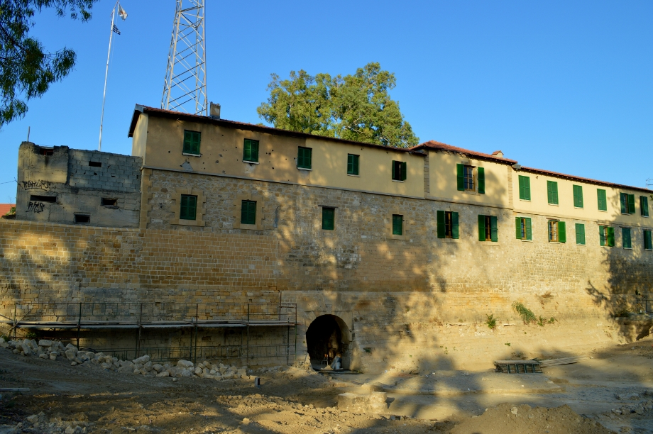 Paphos Gate Markou Draku Old Nicosia Republic of Cyprus 25